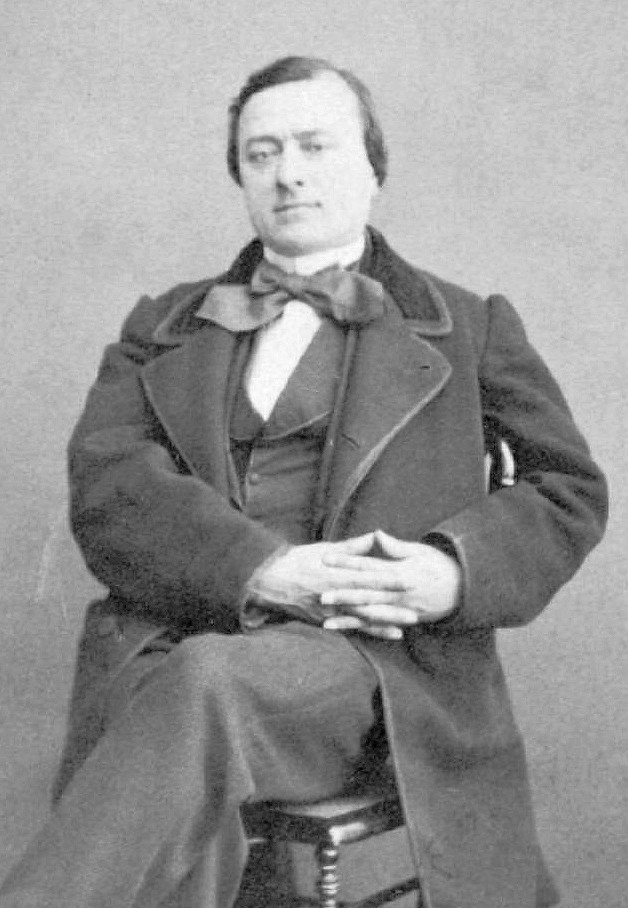 French composer and piano maker Xavier Boisselot (1811-1893).